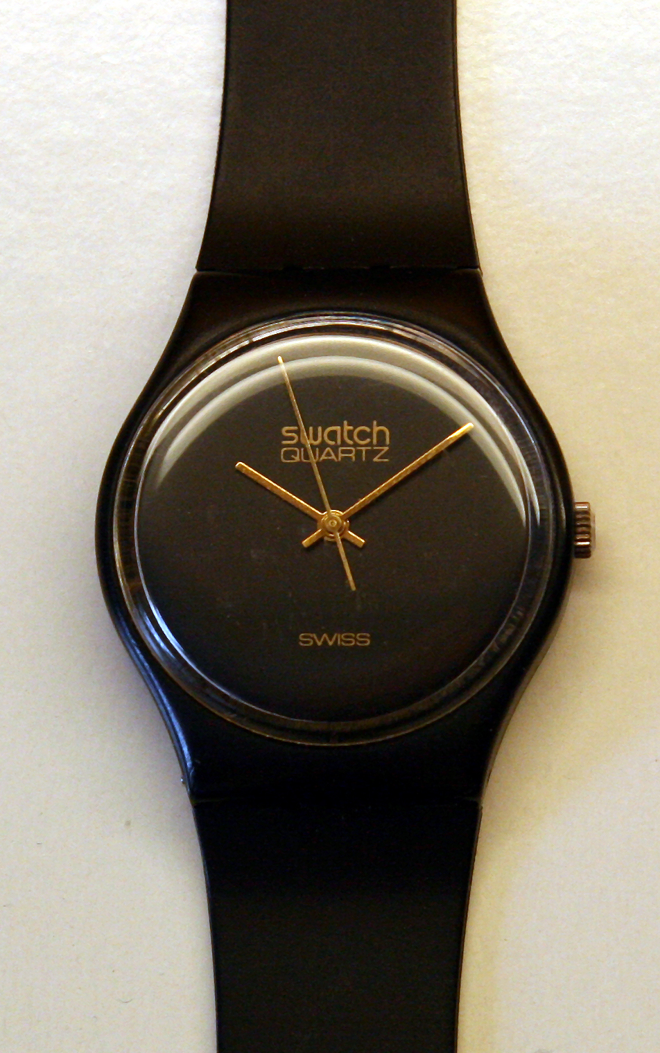 Swatch Model „GB101“ (Gent black 101), one of the first Swatch-Watches, manufactured 1983